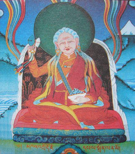 Ayu khandro art